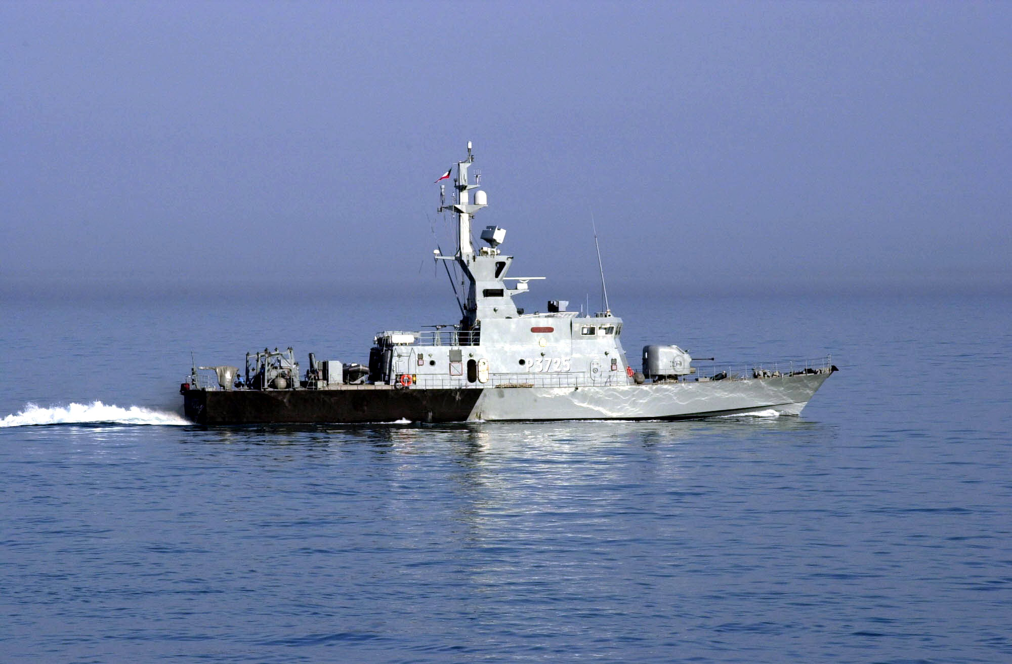 020312-N-6077T-007 At sea with KNS Al-Garoh (P 3725) Mar. 12 2002 -- The Kuwaiti Naval Ship gets underway to conduct a missile firing exercise conducted by the Kuwaiti Navy and coalition forces in the region. U.S. Navy photo by Photographer’s Mate 1st Class Kevin H. Tierney. (RELEASED)